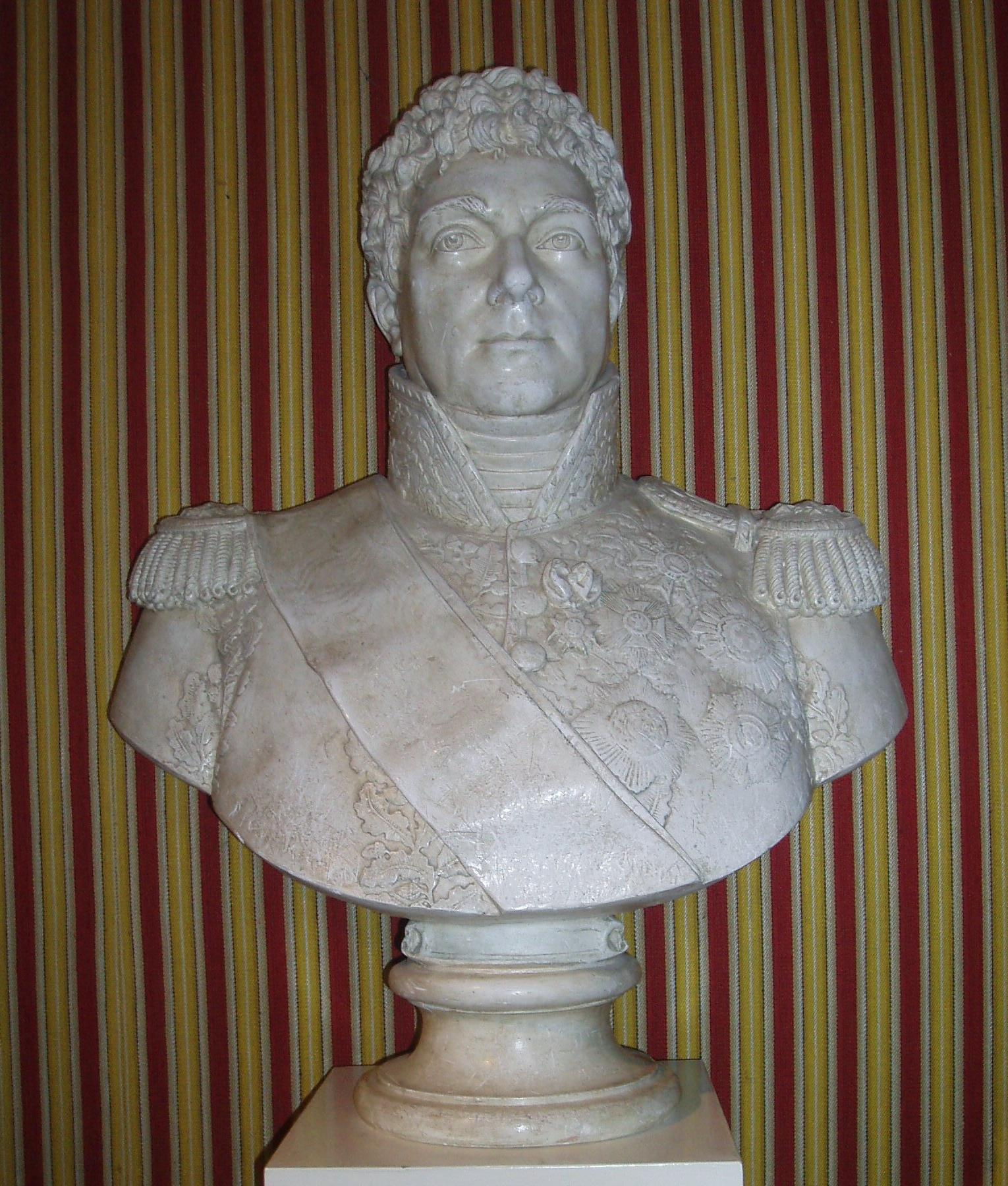 Bust of Louis-Alexandre Berthier in the Chateau de Chambord, Chambord, France.